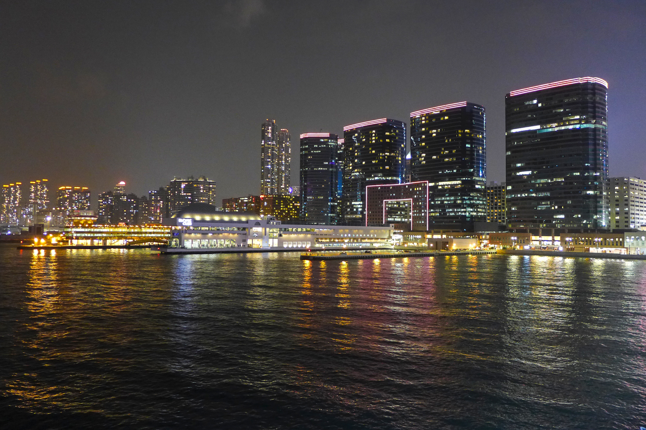 The Gateway Harbour City night view